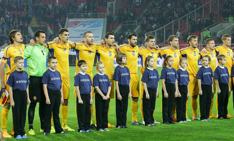 Moldova national football team at match Russia - Moldova, on 12.10.2014